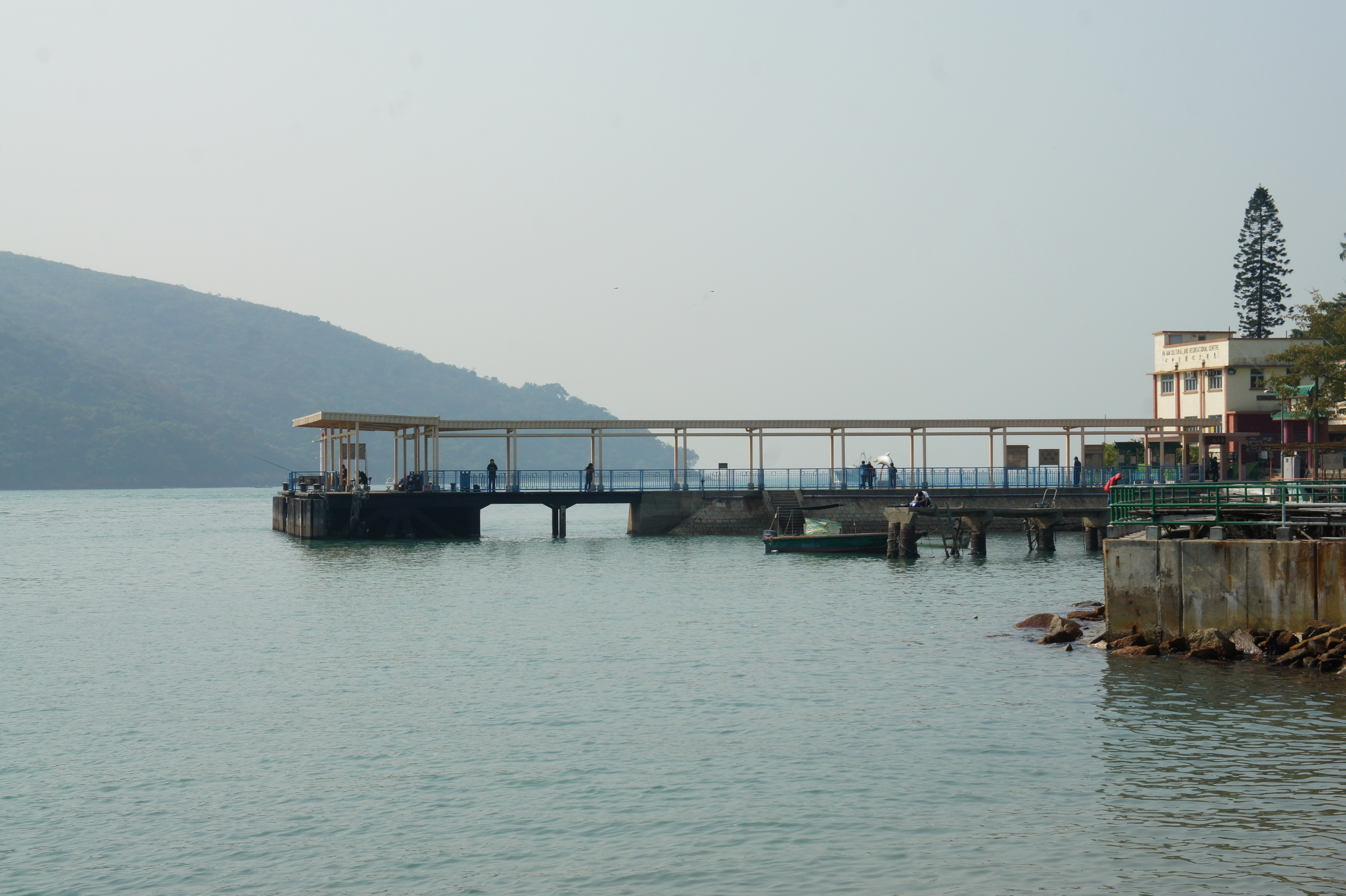 Man Wan Public Pier on the southwest at Ma Wan Main Street Village, Ma Wan, Hong Kong.